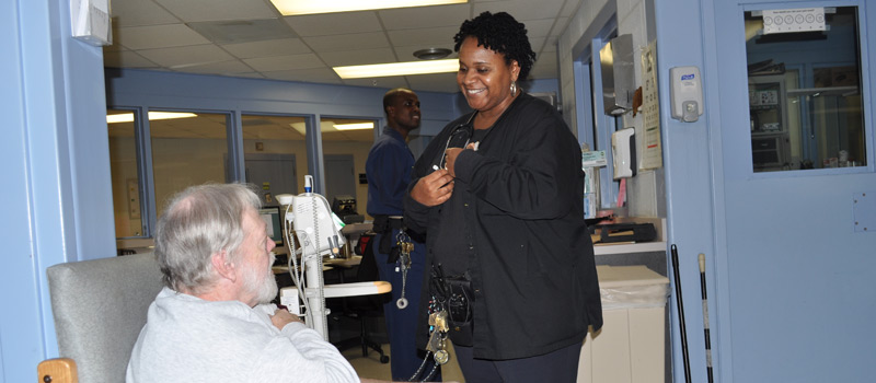 A correctional nurse providing care in a federal prison in the US